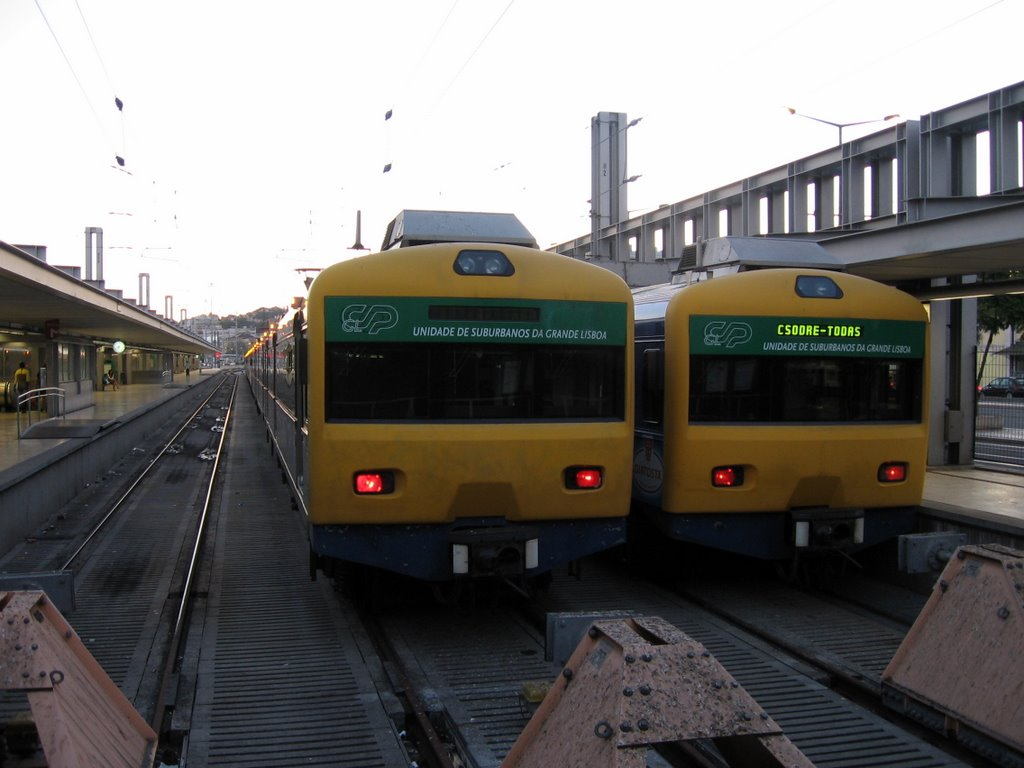 These commuter trains serve the Cascais line from Lisbon to the ocean along the Tagos river estuary. The scenic route passes under the 25 de Abril bridge, Belém tower and cathedral and plenty of fancy villas and beaches.